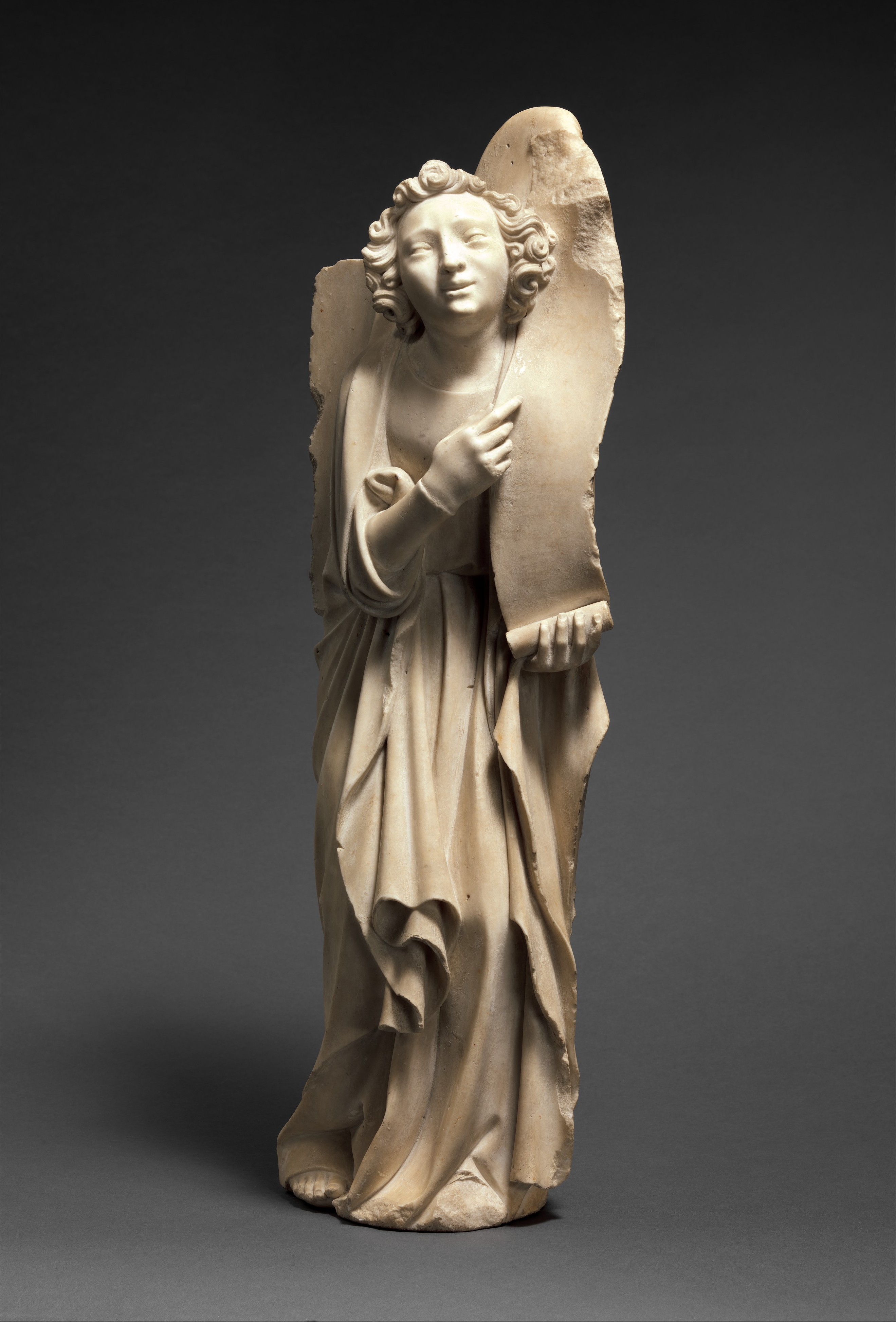 South Netherlandish or French; Statuette; Sculpture-Stone